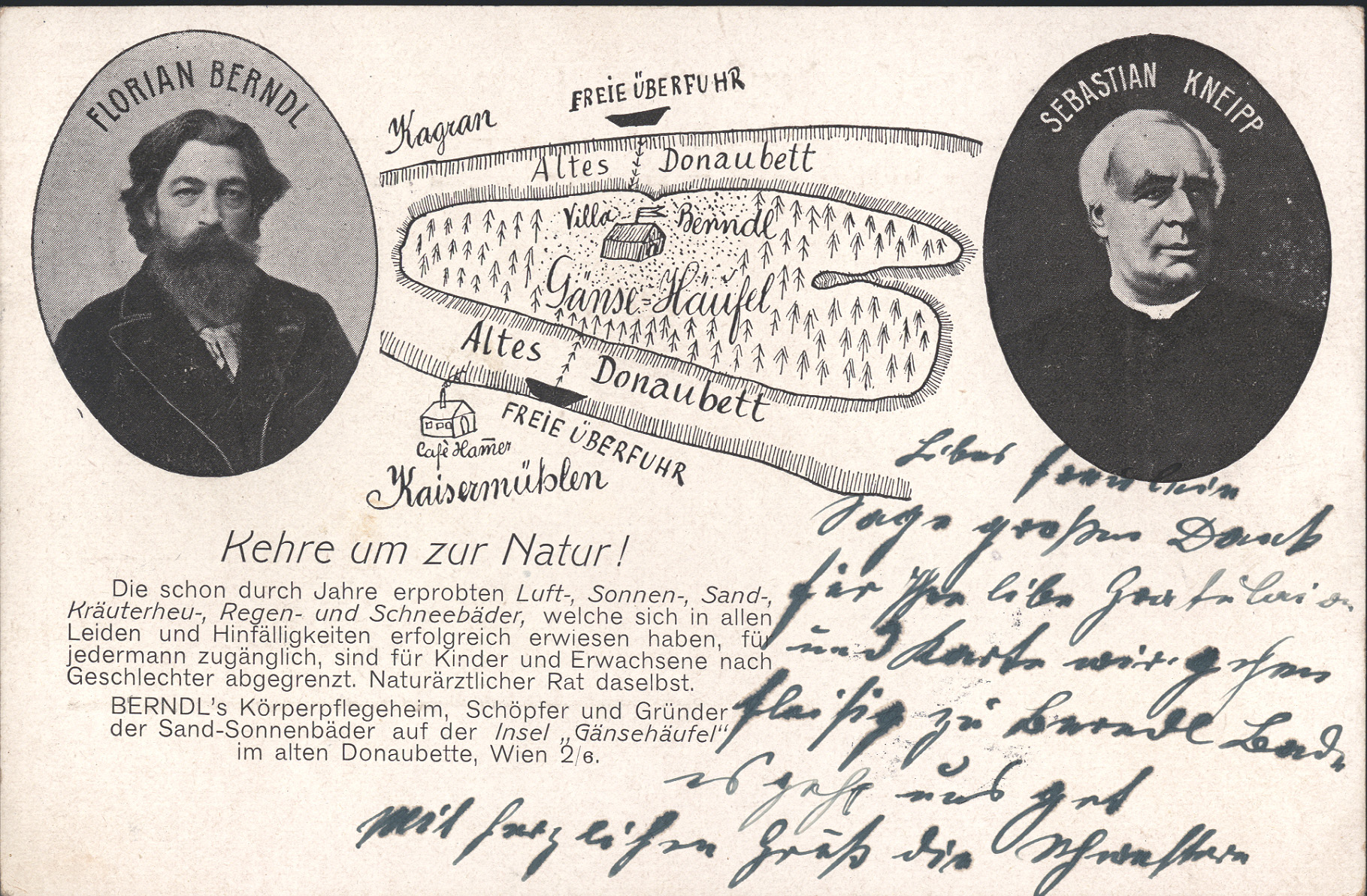 Picture postcard Gänsehäufel/Florian Berndl/Kneipp